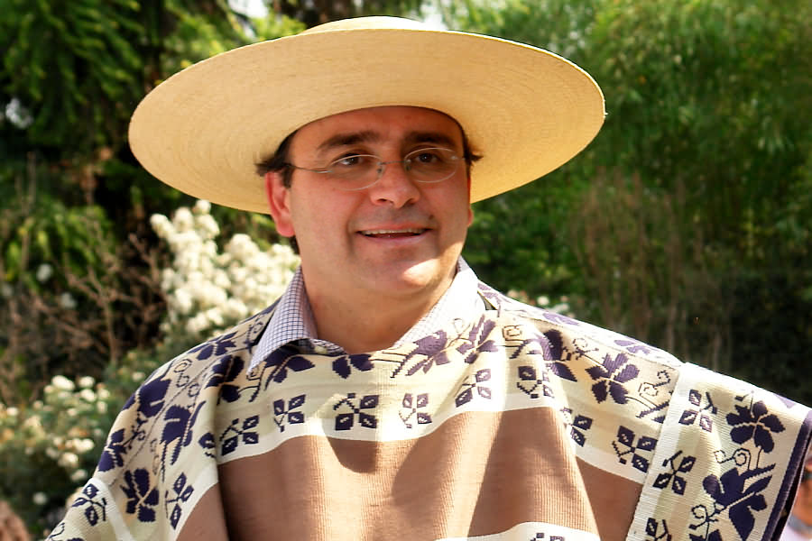 Mayor Mario Olavarría Rodríguez in the Ranch San Miguel de Colina